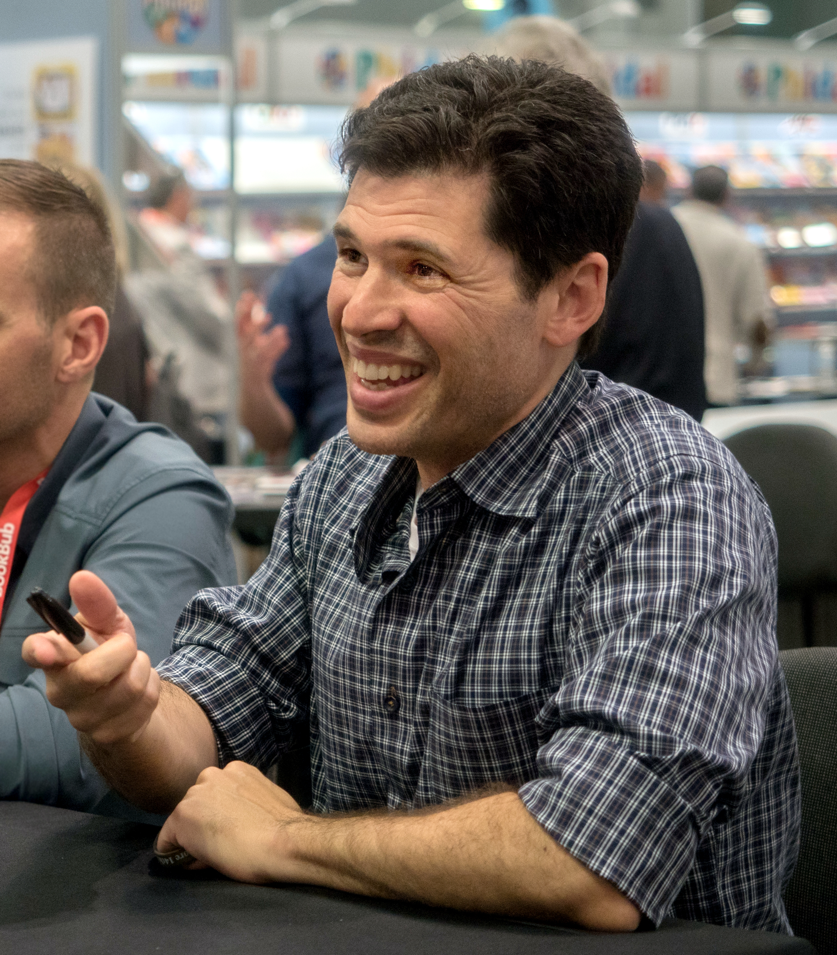 Max Brooks at BookExpo